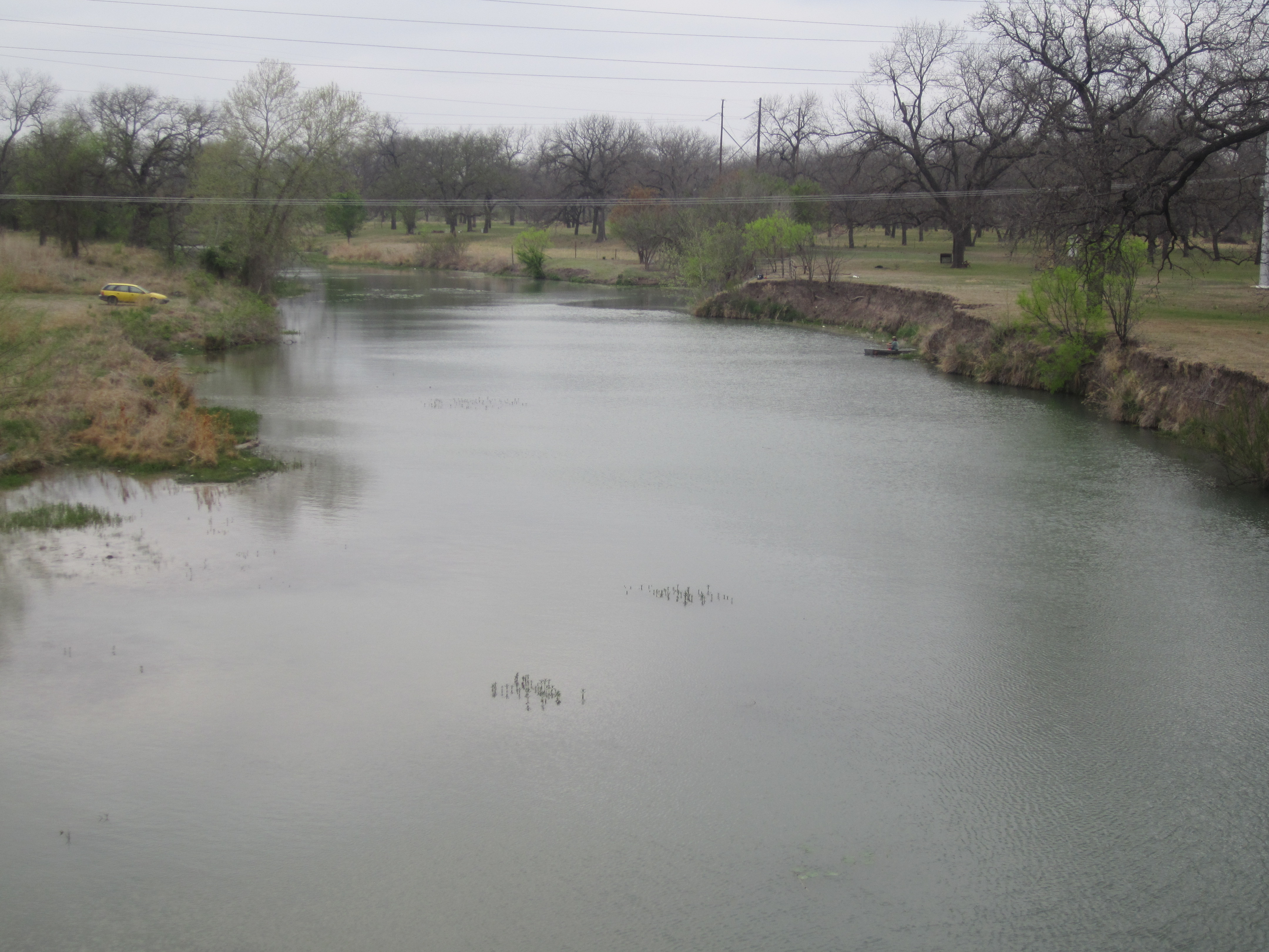 I took photo with Canon camera in Menard, TX.